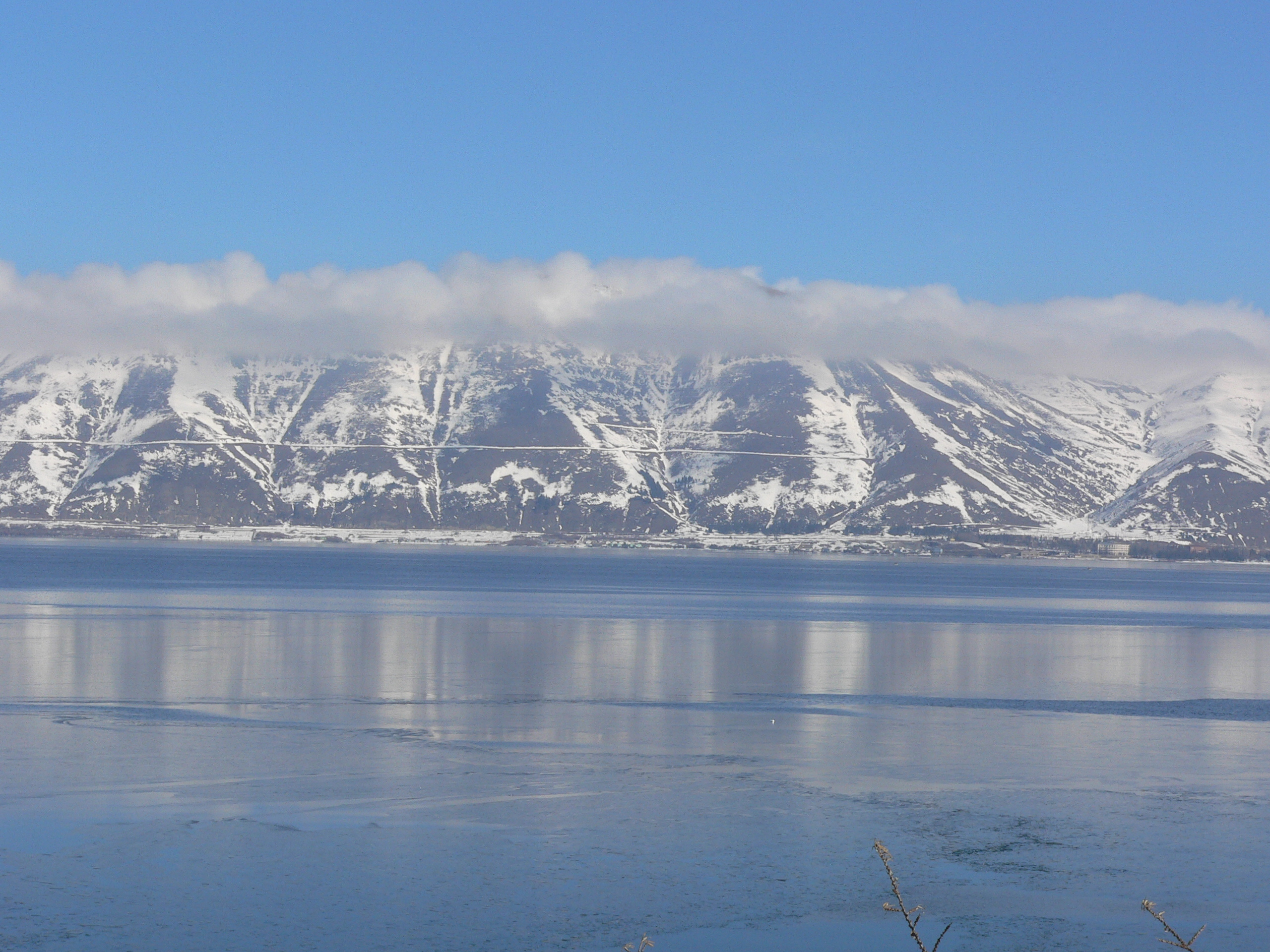 Lake Sevan. View from Yerevan-Tbilisi highway.